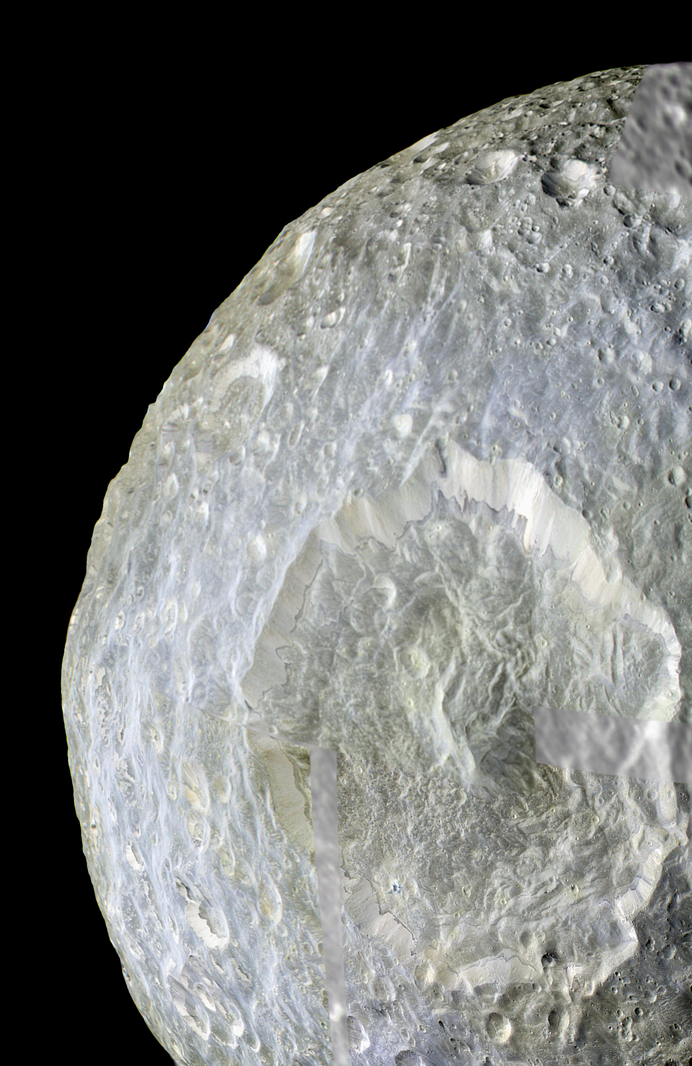 Subtle colour differences on Saturn's moon Mimas are apparent in this false-colour view of Herschel Crater captured by NASA's Cassini spacecraft during its closest-ever flyby of that moon. The image shows terrain-dependent colour variations, particularly the contrast between the bluish materials in and around Herschel Crater (130 kilometres wide) and the greenish cast on older, more heavily cratered terrain elsewhere. The origin of the colour differences is not yet understood, but may be caused by subtle differences in the surface composition between the two terrains. Herschel Crater covers most of the bottom of this image.